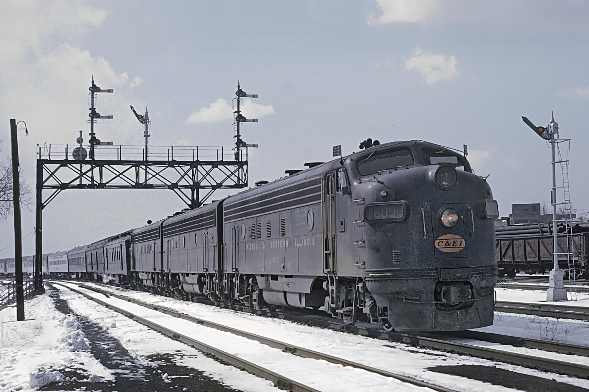 A Roger Puta Photograph